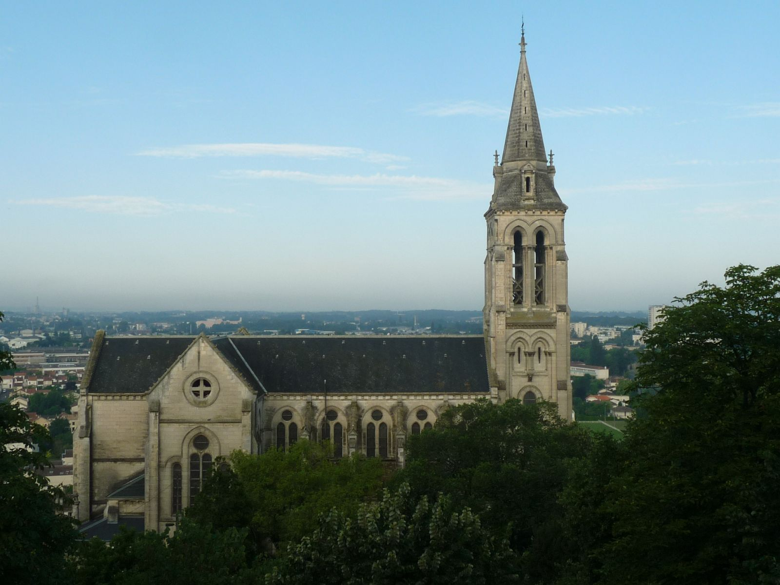 Church of St-Ausone, angoulême, Charente, SW France